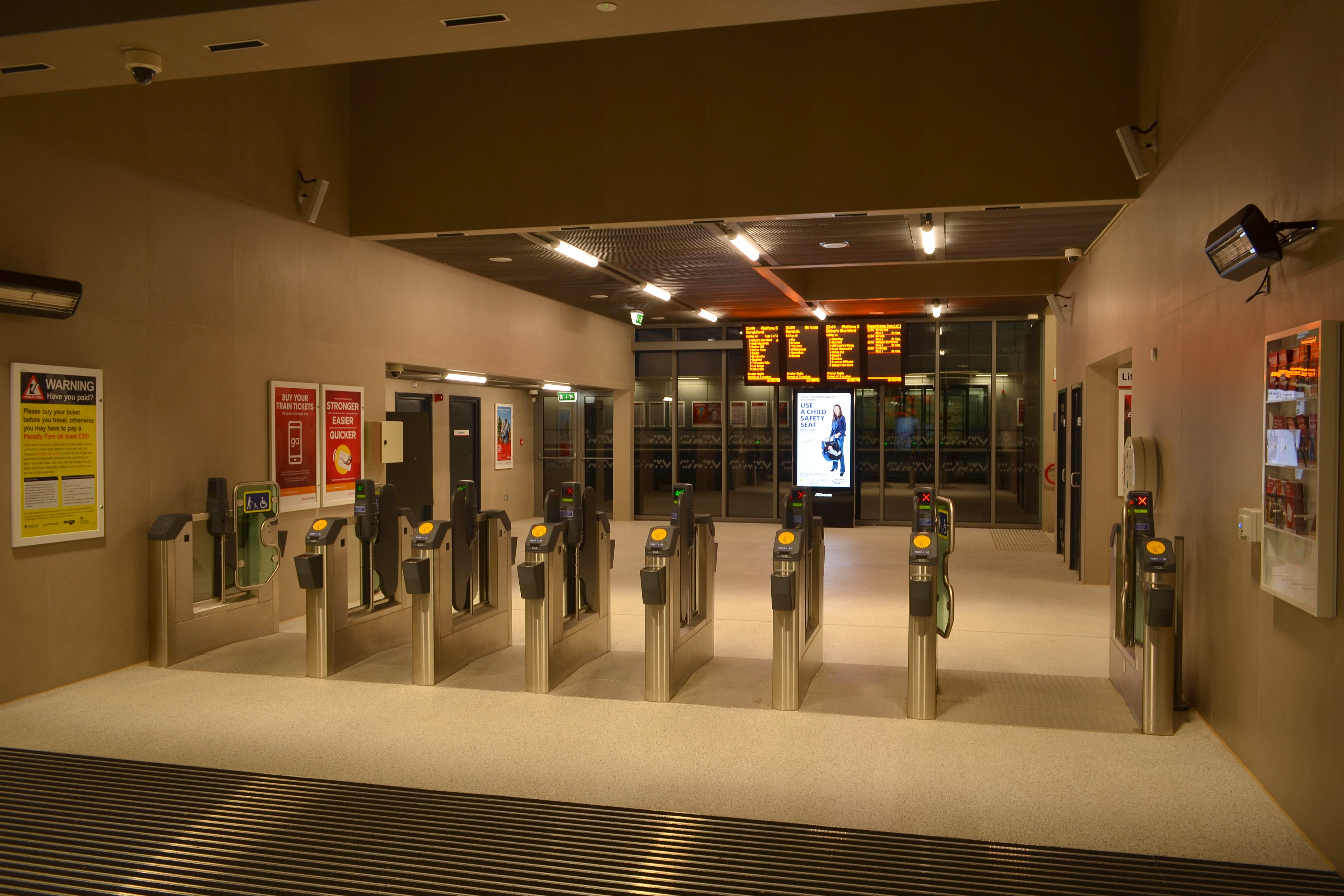 Night view of Cambridge North railway station ticket barriers in May 2017.